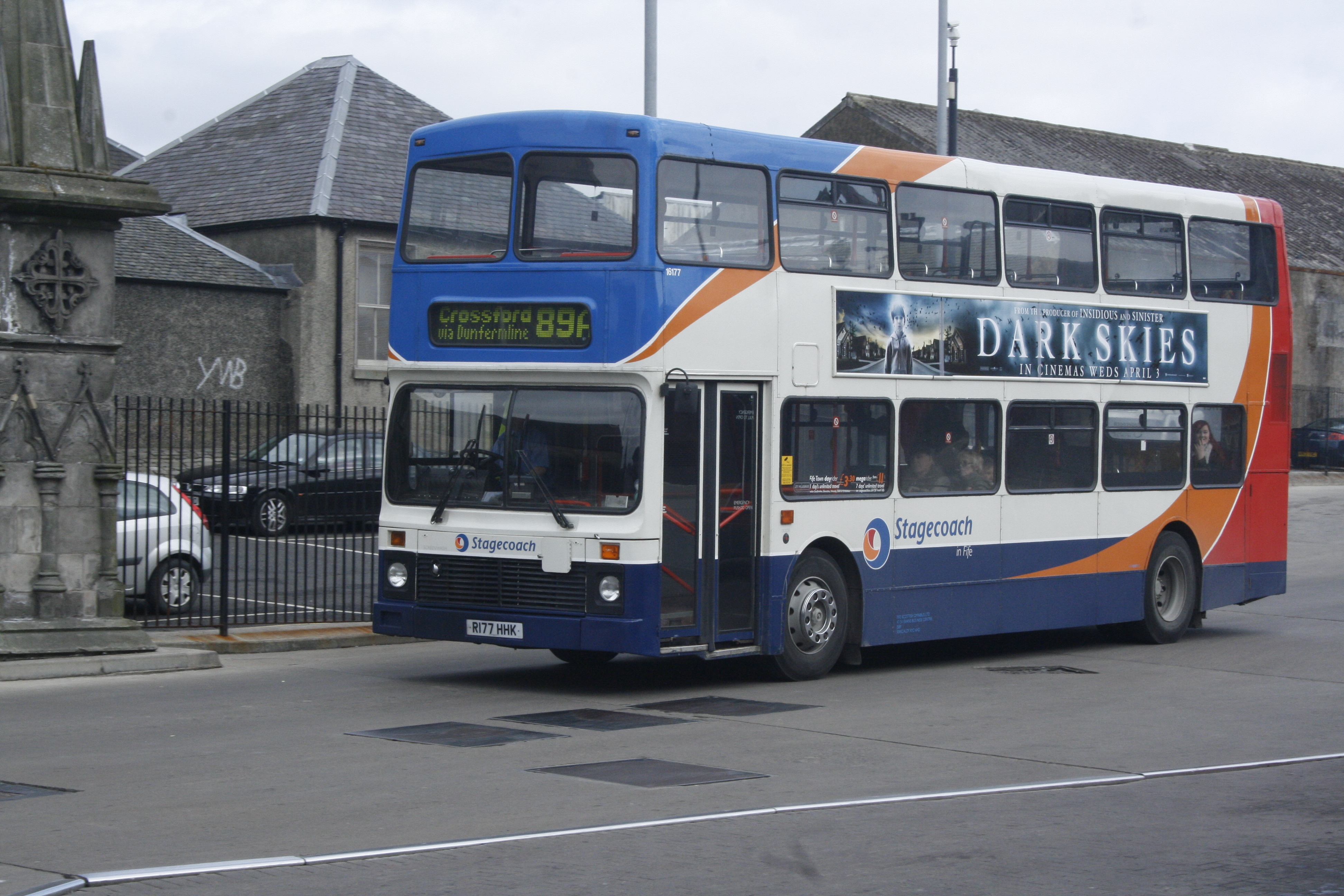 R177 HHK, a Volvo Olympian with Northern Counties Palatine bodywork, enters Dunfermline bus station with the 89A to Crossford.